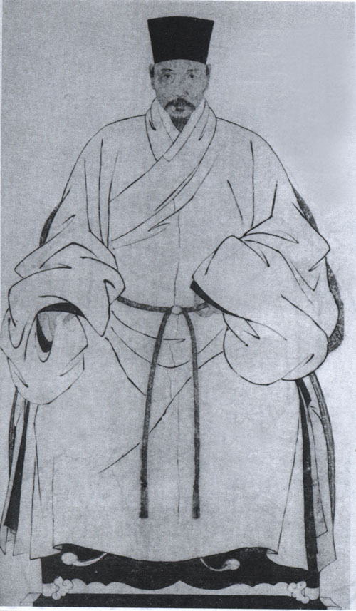 Chen Baisha (1428–1500) is one of China's most famous Confucian scholars, poets, and calligraphers, during the Ming Dynasty.